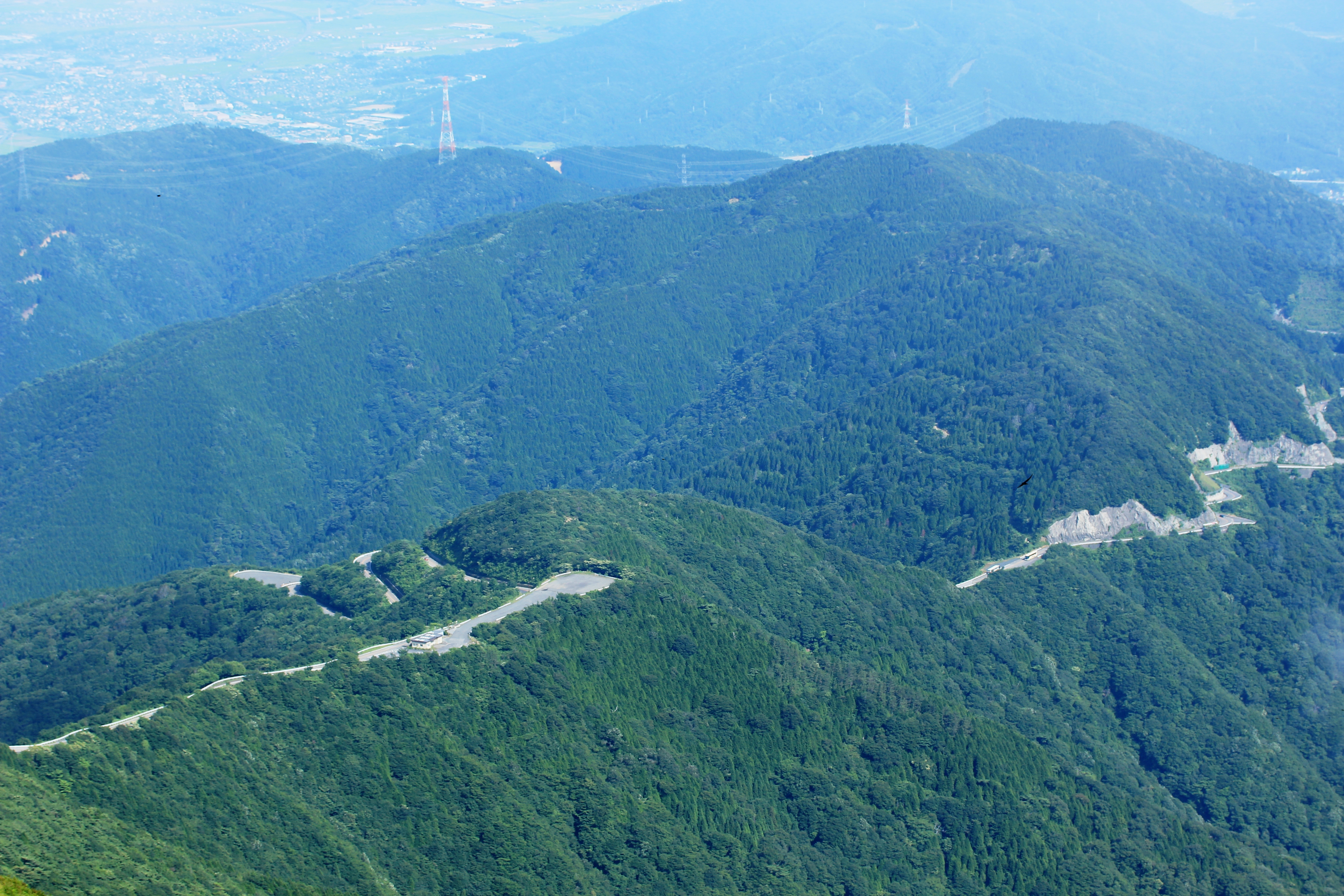 Ibukiyama Drive Way and Joheijigoe parking seen from Mount Ibuki, Maibara, Shiga prefecture, Japan.